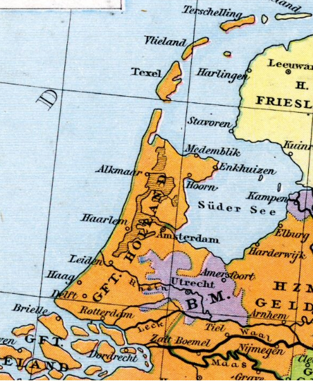 County of Holland and surrounding territories in the 15th century.